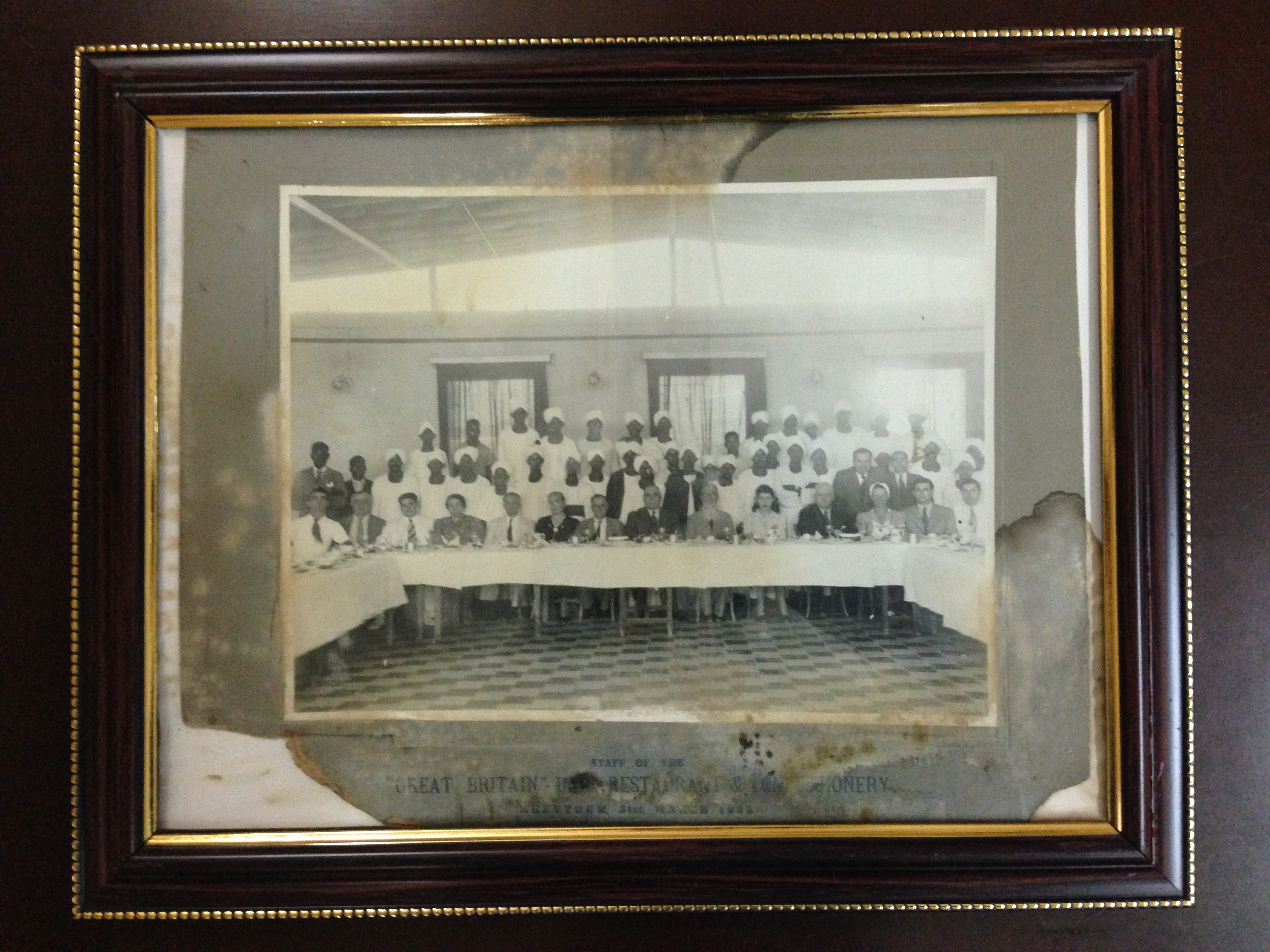 Historical picture inside the Acropole Hotel in Khartoum, Sudan